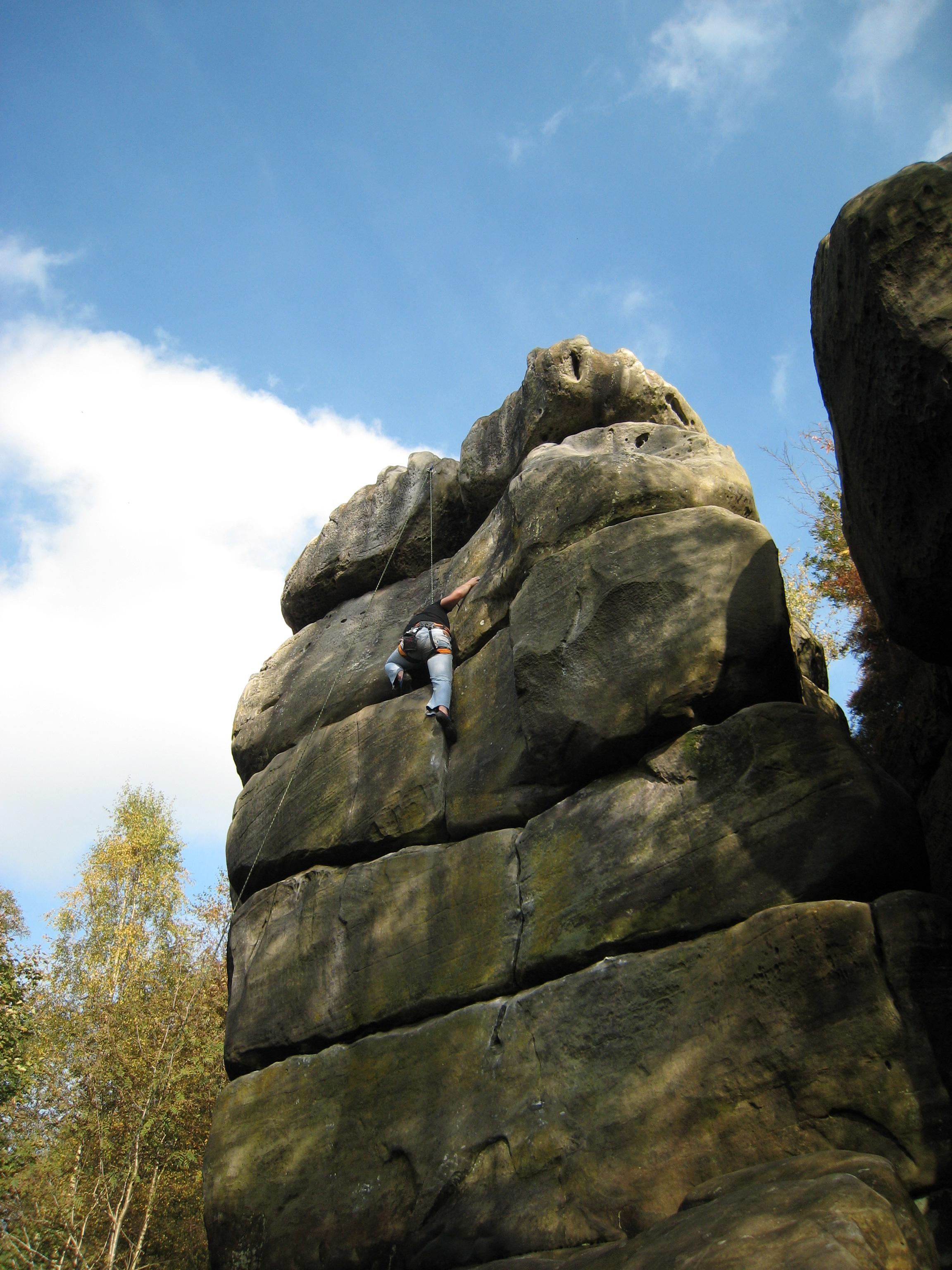 One of the large rock stacks at the popular climbing destination, Harrison's Rocks